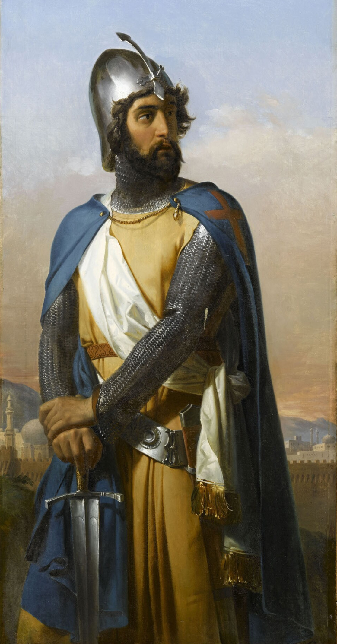 Tancred of Hauteville, Prince of Galilea.